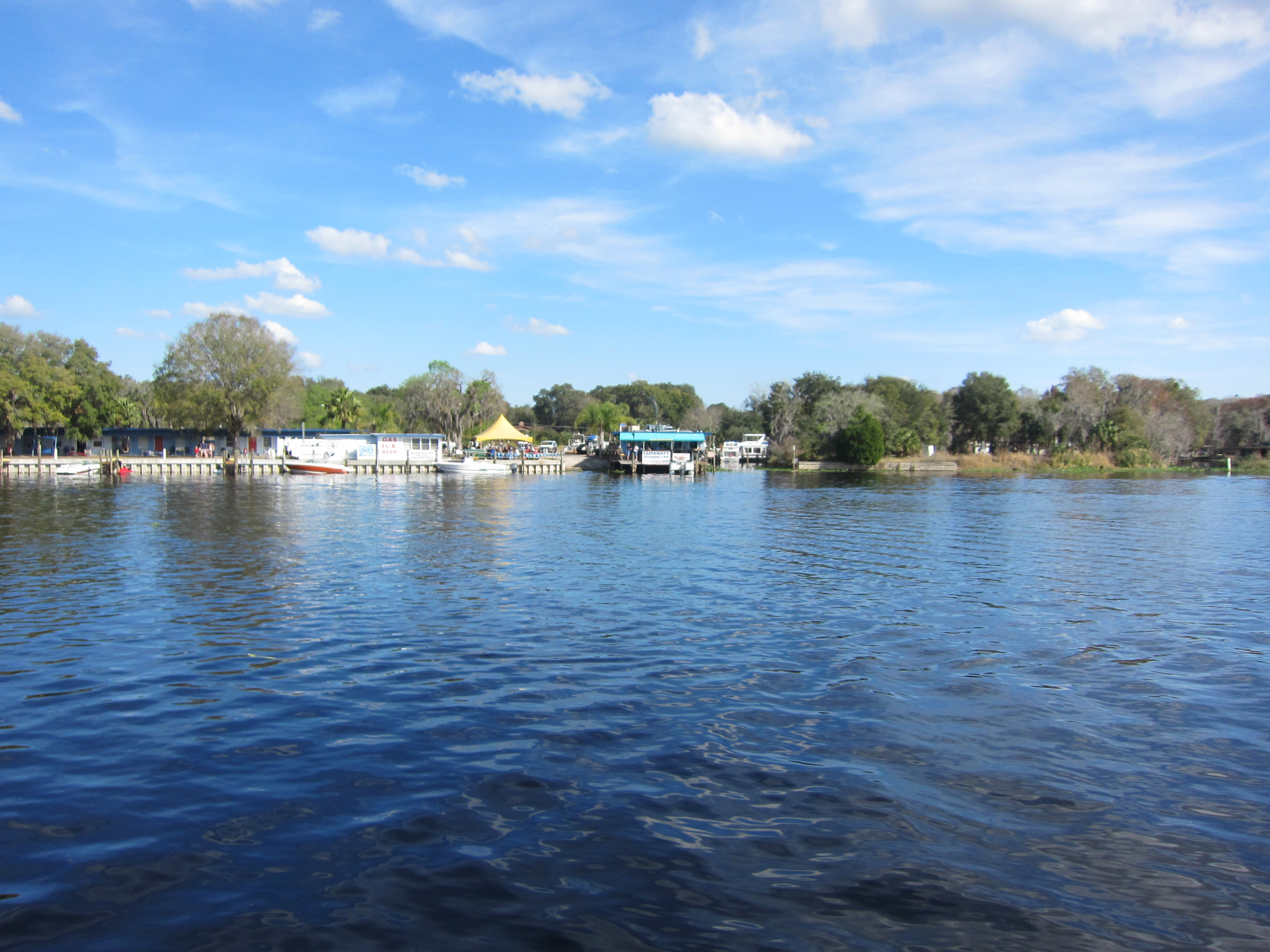 St. Johns River at Astor, Florida. Across the river is Castaway's Restaurant & Bar on the Astor Bridge Marina, in Volusia, Florida. Photograph taken at the dock on the Blackwater Inn, 55716 Front Street, Astor.